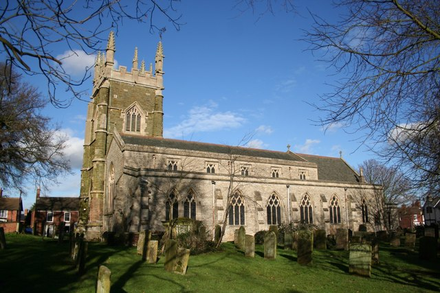 St.James' church. A large church much restored by W. Basset Smith in 1879